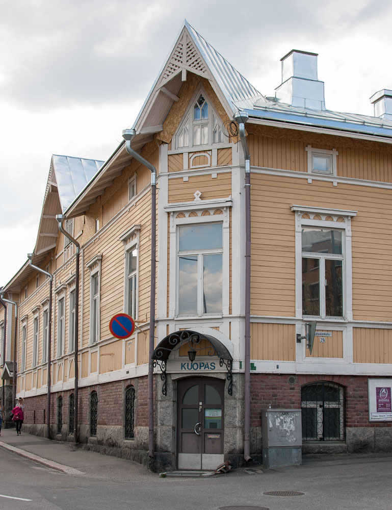 Office of Kuopion opiskelija-asunnot Oy (Kuopas) in Kuopio, Finland.